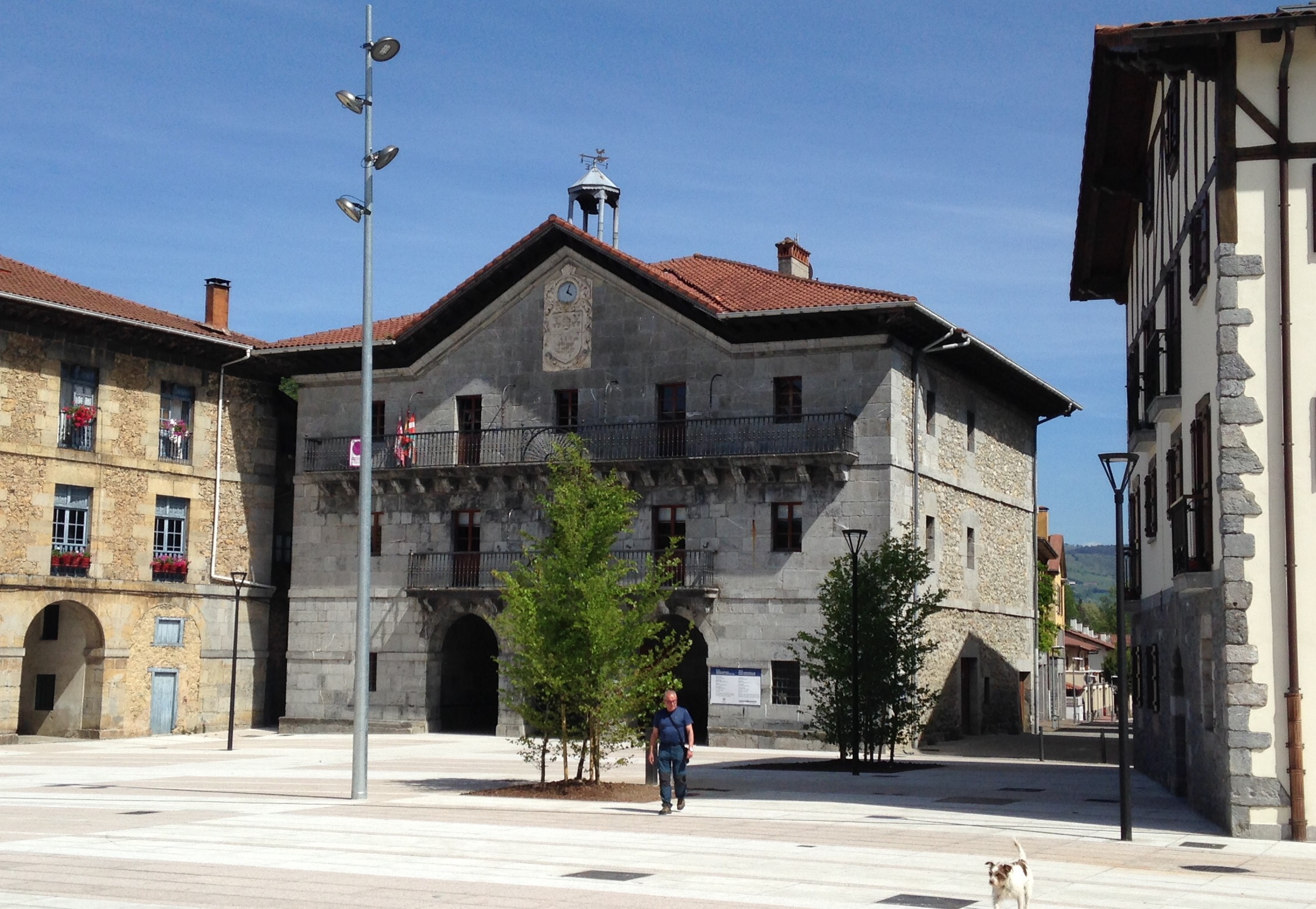 Asteasu city hall